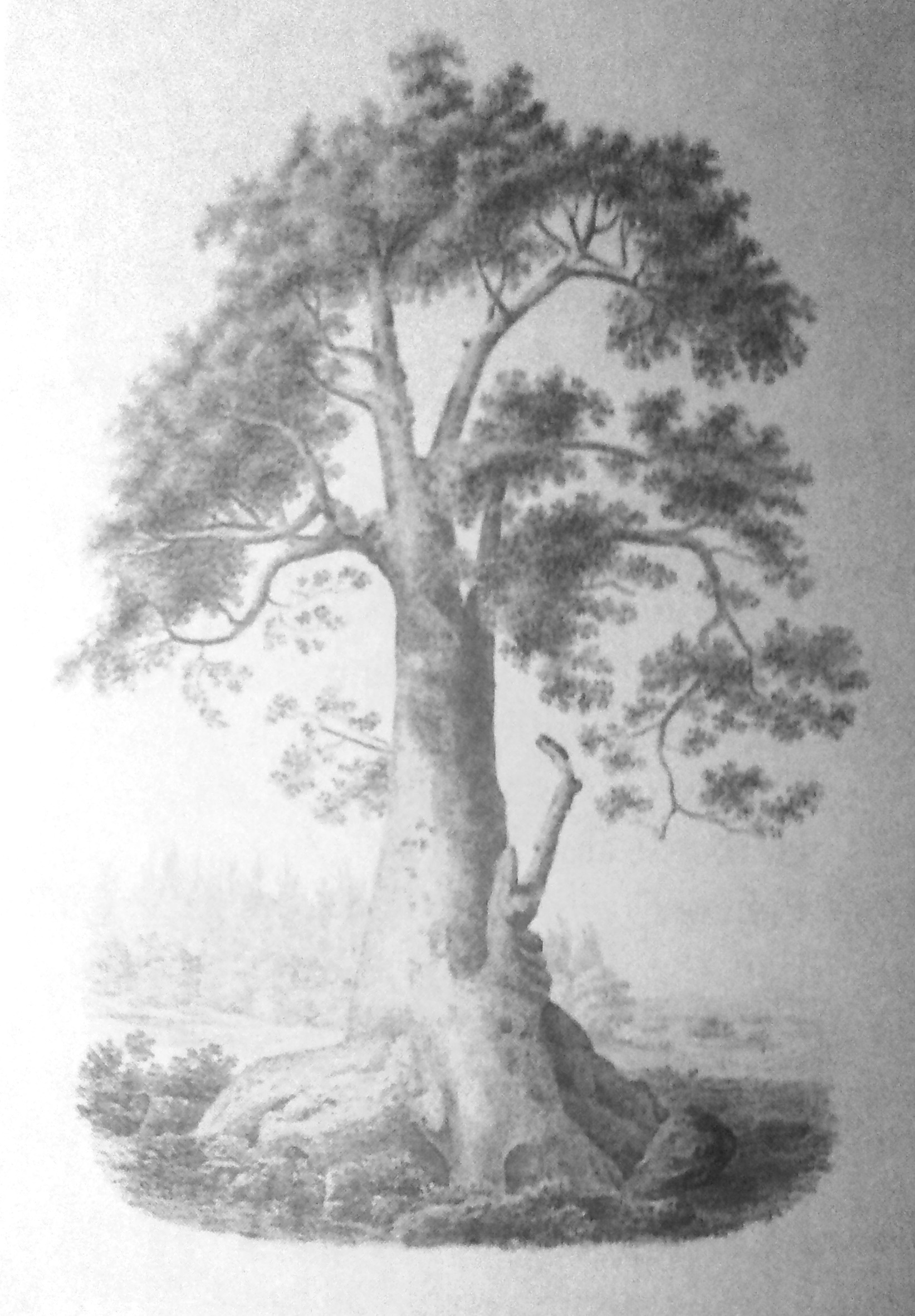 Bois Mapou - E Pitot - Mauritius Cyphostemma mappia